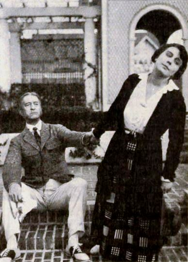 Still from the American comedy film The Homebreaker (1919) with Edwin Stevens and Dorothy Dalton, on page 46 of the April 26, 1919 Exhibitors Herald.